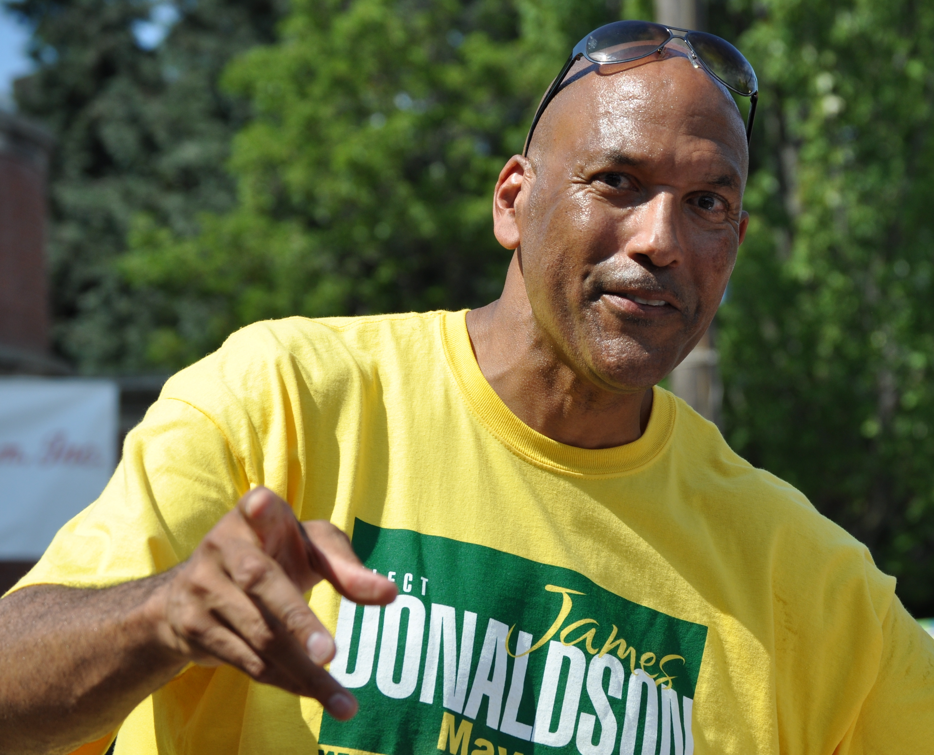 Former pro basketball player and, at the time of this photo, current candidate for the mayoralty of Seattle, photographed at the Ballard Seafood Festival, Ballard, Seattle, Washington.